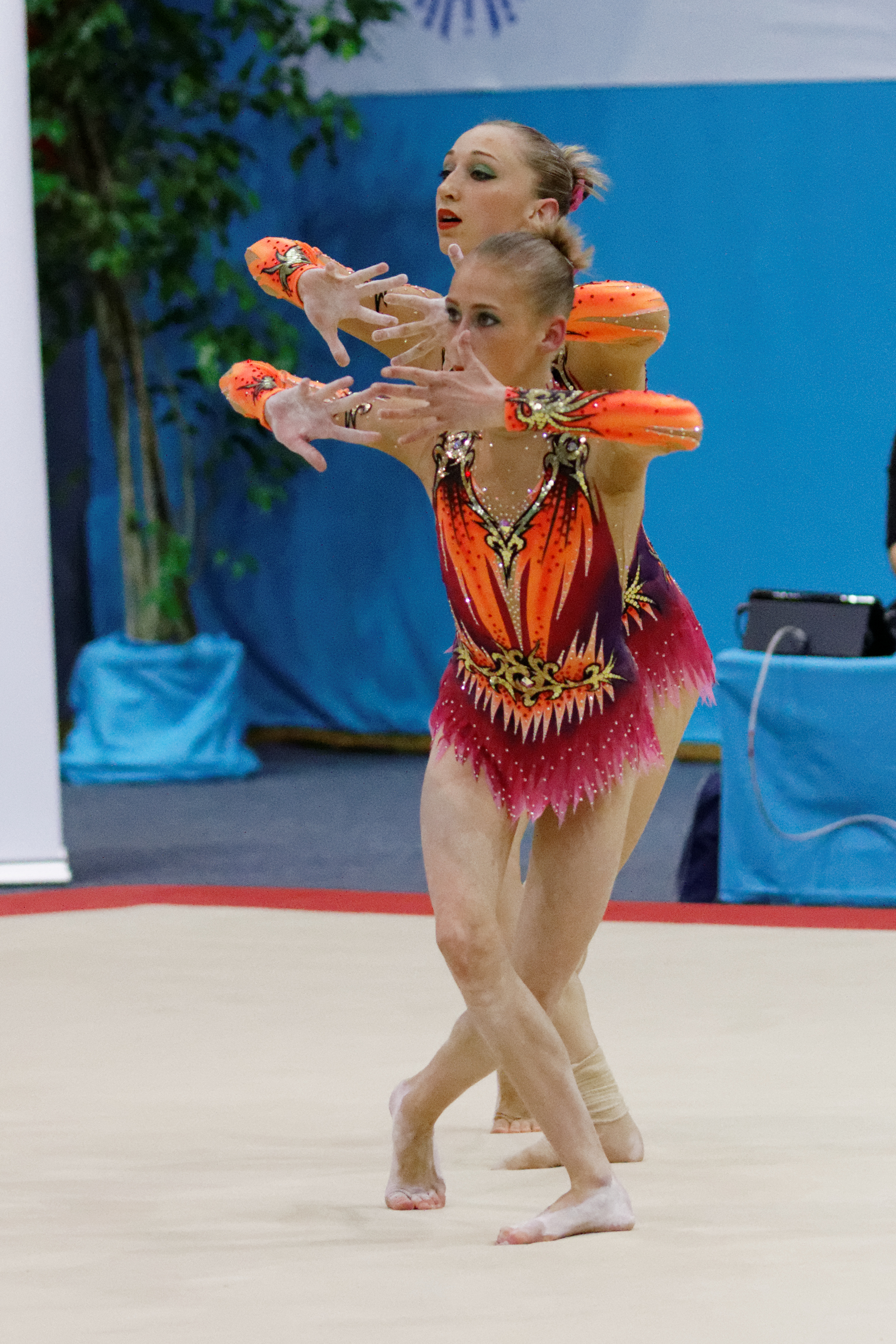 2014 Acrobatic Gymnastics World Championships, 10th-12 July, Levallois-Perret, France. Finals : women pair. Belarus.